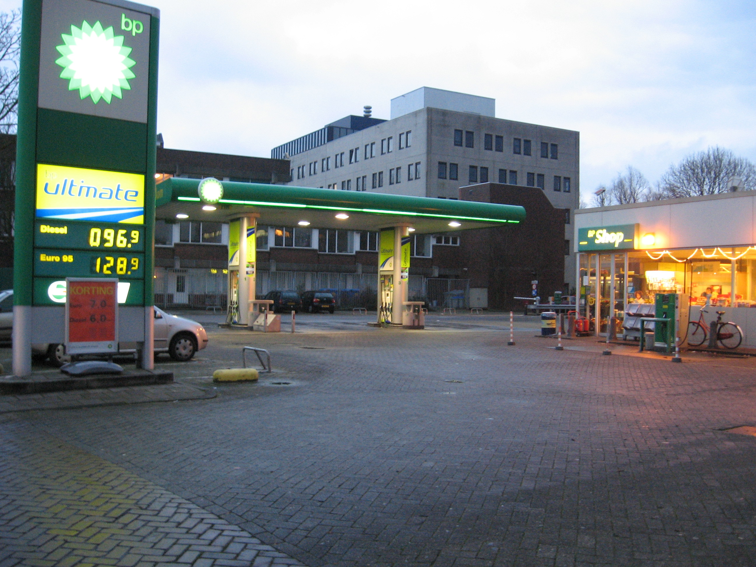 Description Een BP Tankstation in Groningen Date28 December 2006SourceOwn workAuthorKevsterPermission (Reusing this file) Vrijgegeven onder GFDL Een BP Tankstation in Groningen